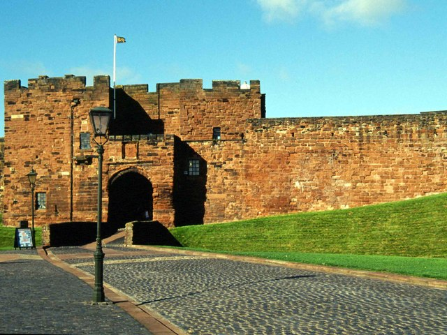 Carlisle Castle Showing the public entrance to this English Heritage site.